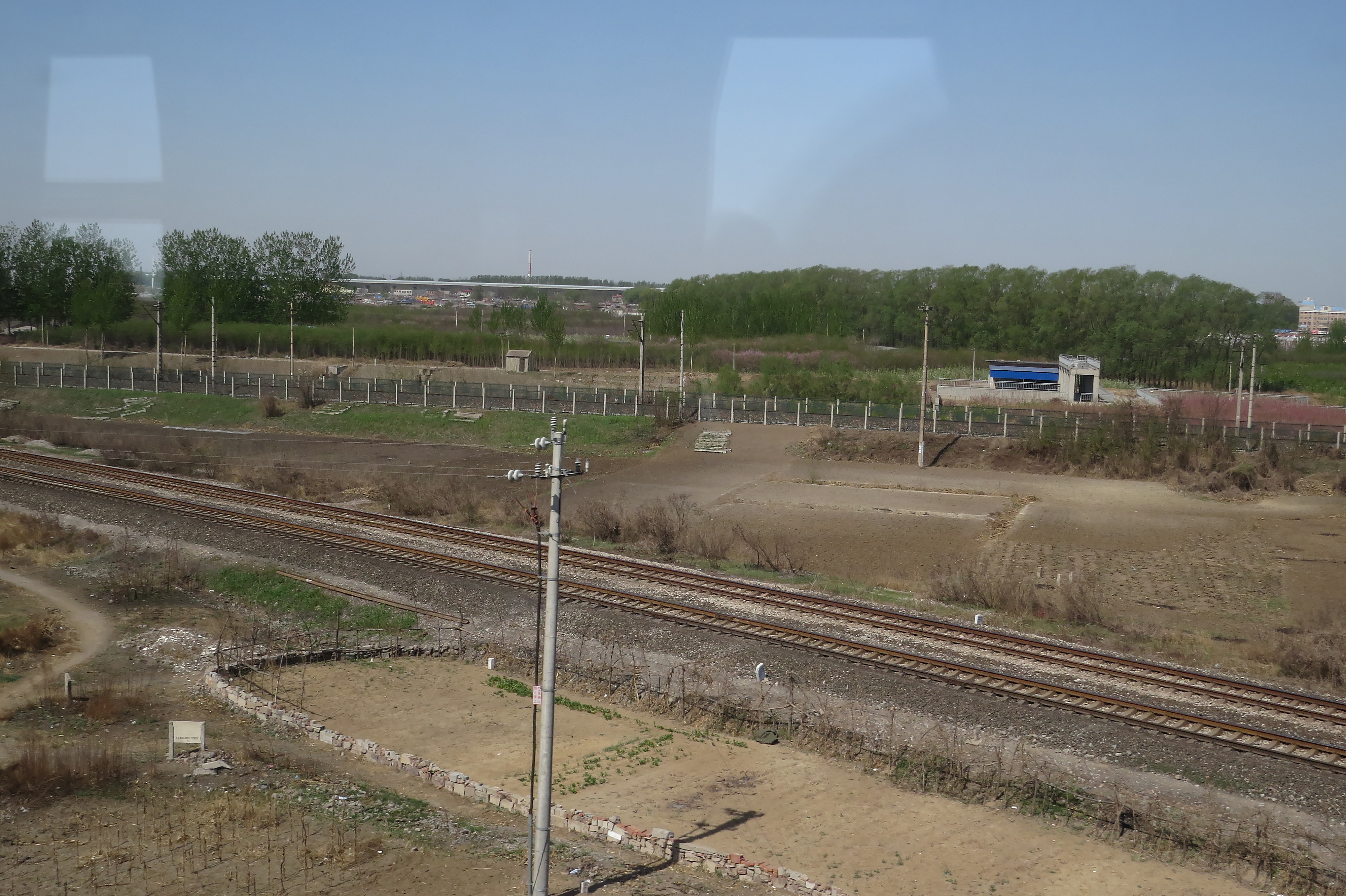 Formerly part of Beijing-Harbin Railway, this railway later suffered from ground subsidence due to underneath coal mines, so the new Tianjin-Shanhaiguan Railway was built in 1994.